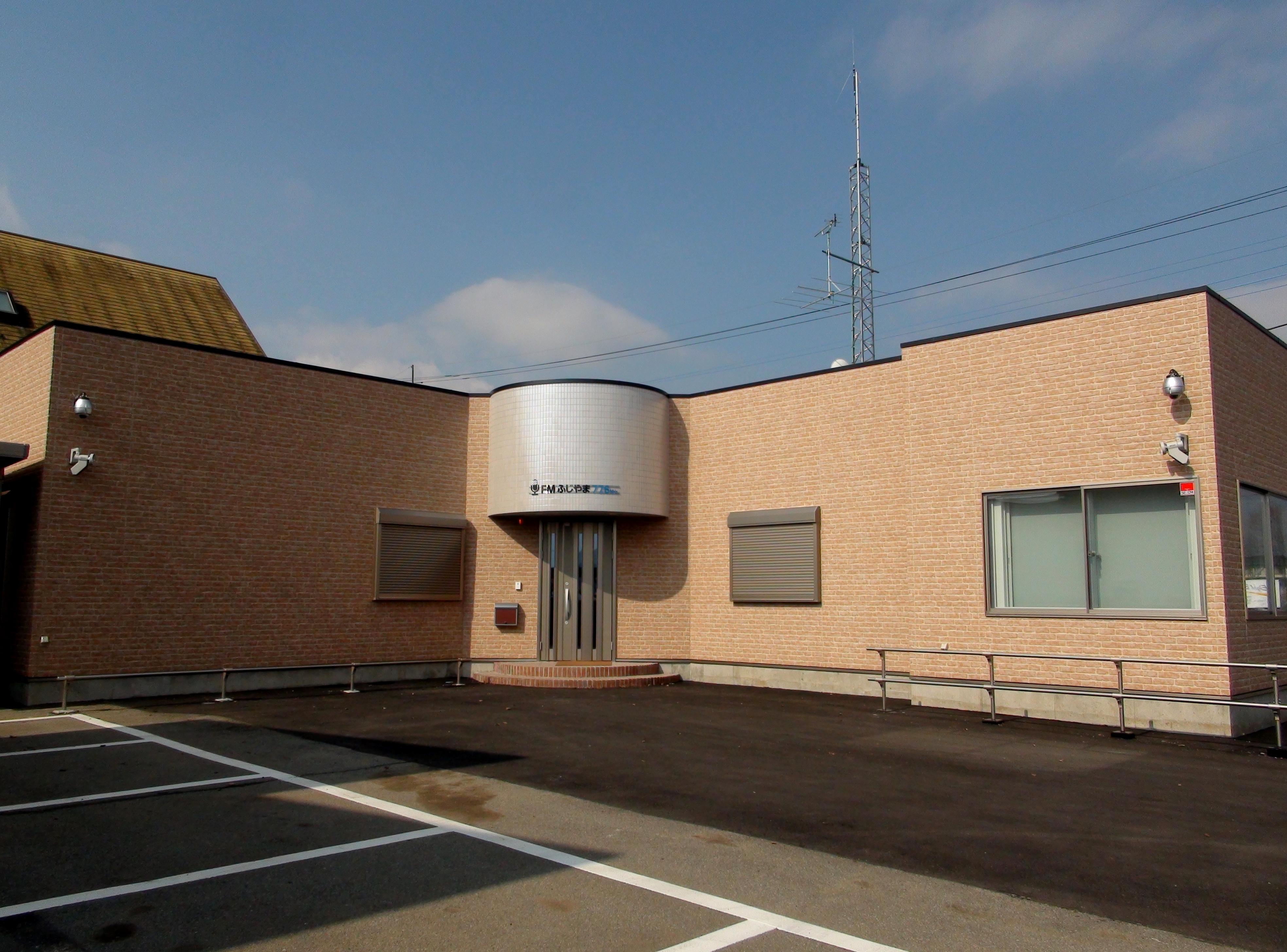 FM Fujiyama broadcasting stations